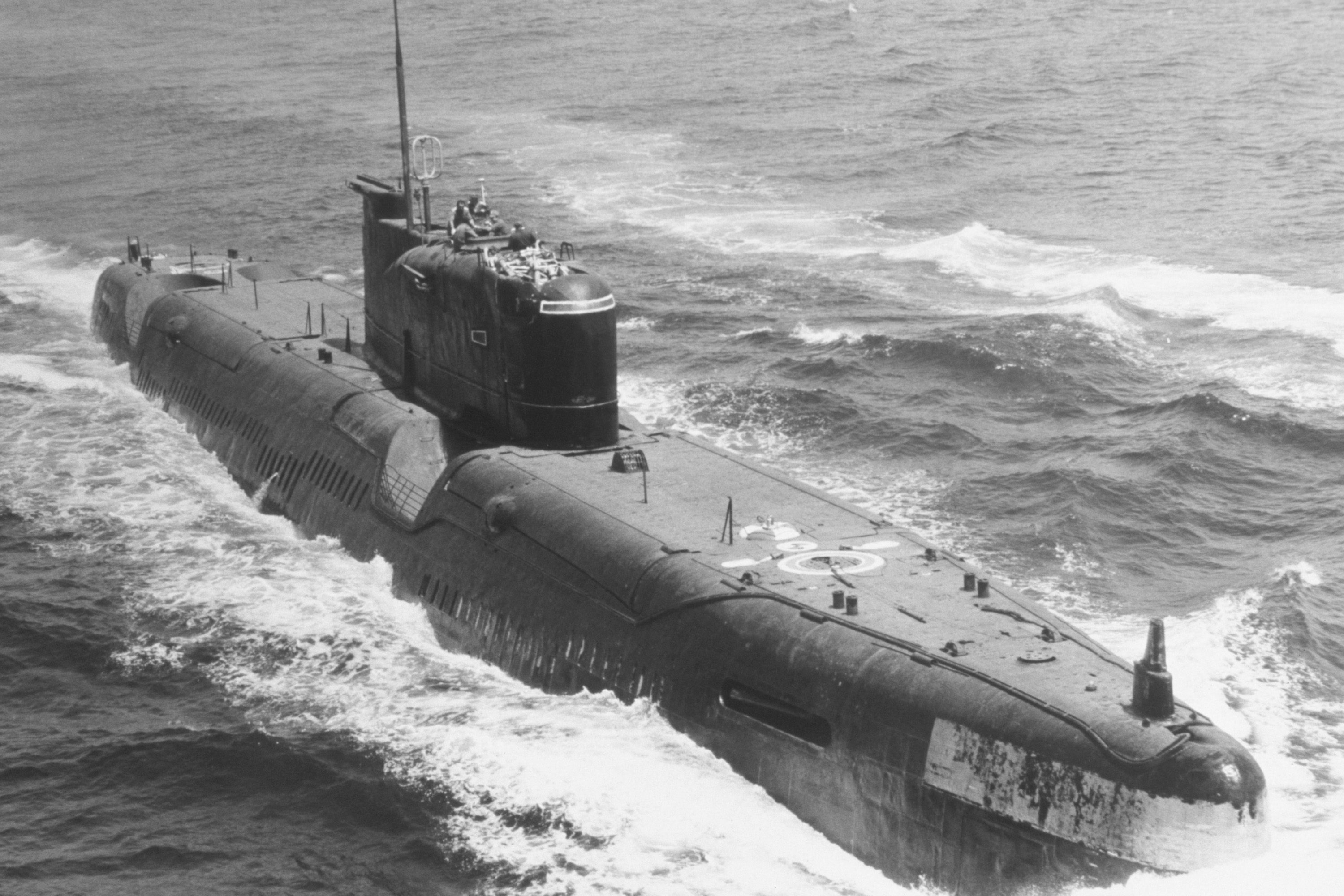 A starboard bow view of a Soviet Juliett class submarine underway.